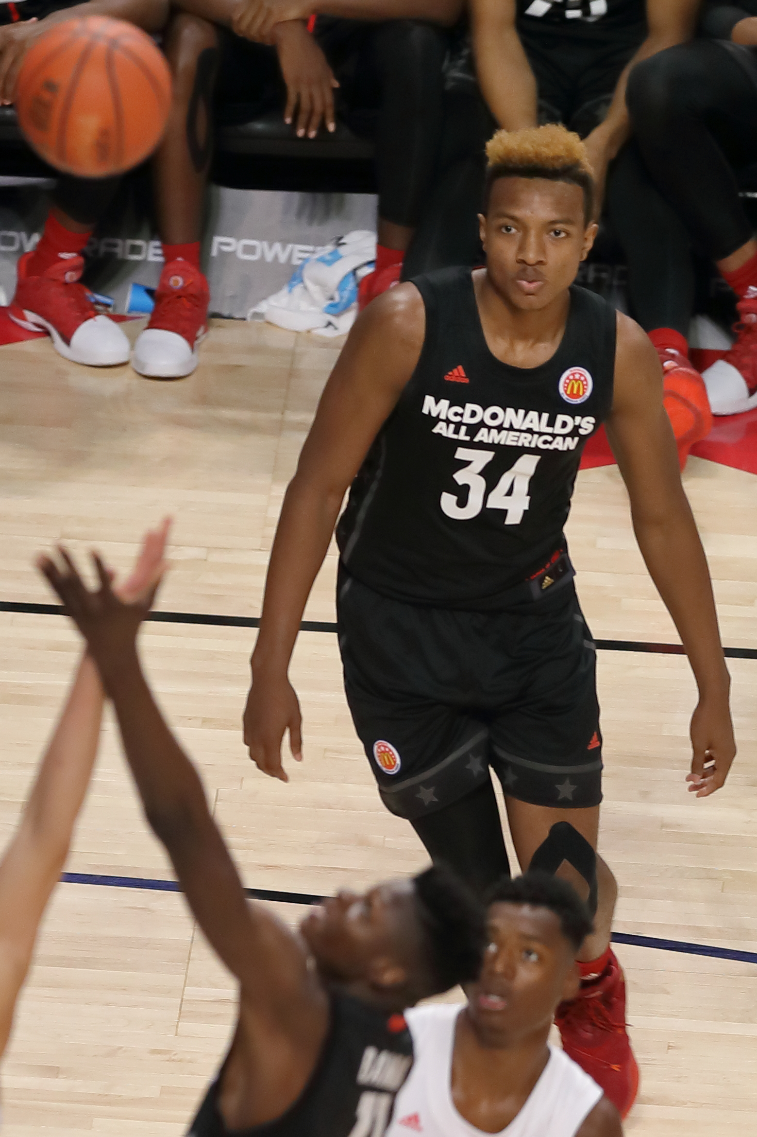 Wendell Carter Jr. at the w:2017 McDonald's All-American Boys Game